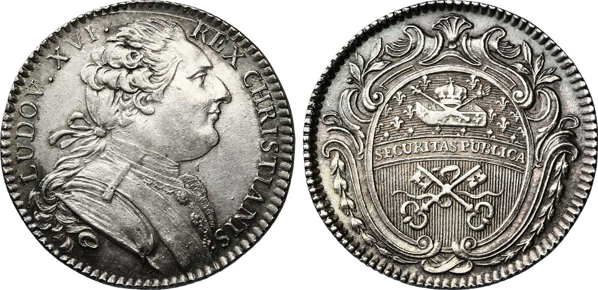 Jeton de la corporation des serruriers. La profession de serrurier a été l'objet d'une discipline très sévère dans tous les temps en raison de la gravité exceptionnelle des conséquences des abus ou de la négligence de ses membres.